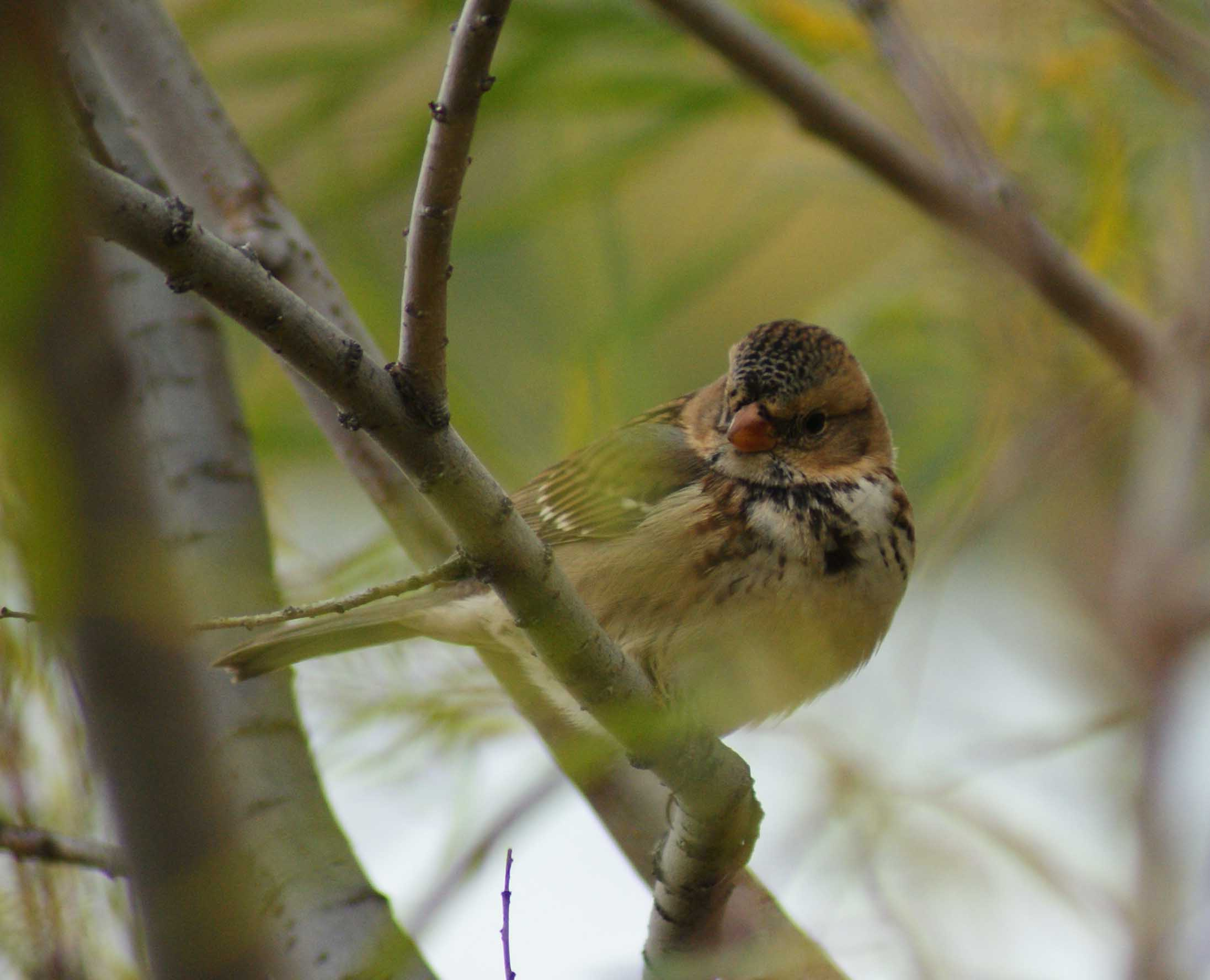 A Bird photographed on the South Saskatchewan River bank near the Mendel Art Gallery inside the city of Saskatoon Note orange bill, Pale belly, white wing stripes, orange neck band, Speckled head, orange eye bands, same bird as SKBird2.jpg (no hyphen) With some help from Roy W, a biology graduate, this bird compares to an immature Harris's sparrow Zonotrichia querula, which also has a pink (orange) bill. Alabama Govt S Dakota birds Talk About Wildlife - first year winter bird USGS ON ornithologists Oklahoma It does not match my first queries for Harris's Sparrow which show the mature species All about Birds Bird Web [1] [2] [3] [4] SK birder - bird in "breeding plumage" Similar but not quite right sparrows.... The colour of bill is wrong, but the striping is similar to a Savannah Sparrow Savannah Sparrow Passerculus sandwichensis e-Bird SK Cornell Lab of Ornithology [5] The colouring of stripes is wrong, but the bill is a similar colour White-crowned Sparrow Zonotrichia leucophrys